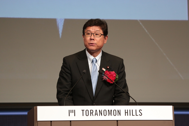 Tsuyoshi Takagi, Senior Vice-Minister of Land, Infrastructure, Transport and Tourism, addressed at the Opening Ceremony for Toranomon Hills at Toranomon Hills Mori Tower in Minato Ward, Tōkyō Metropolis on June 20, 2014.